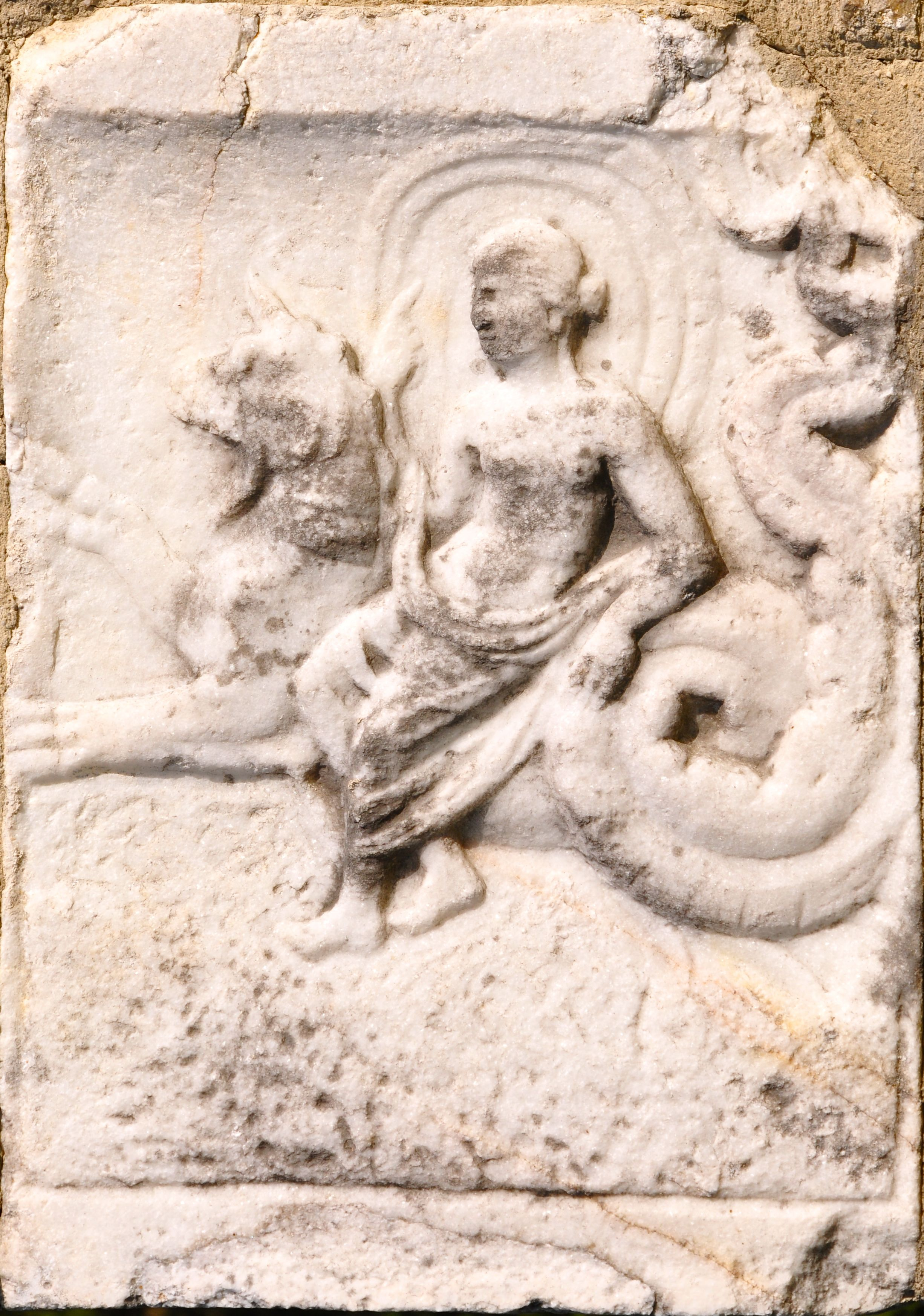 Roman relief stone with "sea griffin and Nereida" motif on the western gable wall of the church ruin Saint Stephen in Sankt Stefan, municipality Feldkirchen, district Feldkirchen, Carinthia, Austria, EU